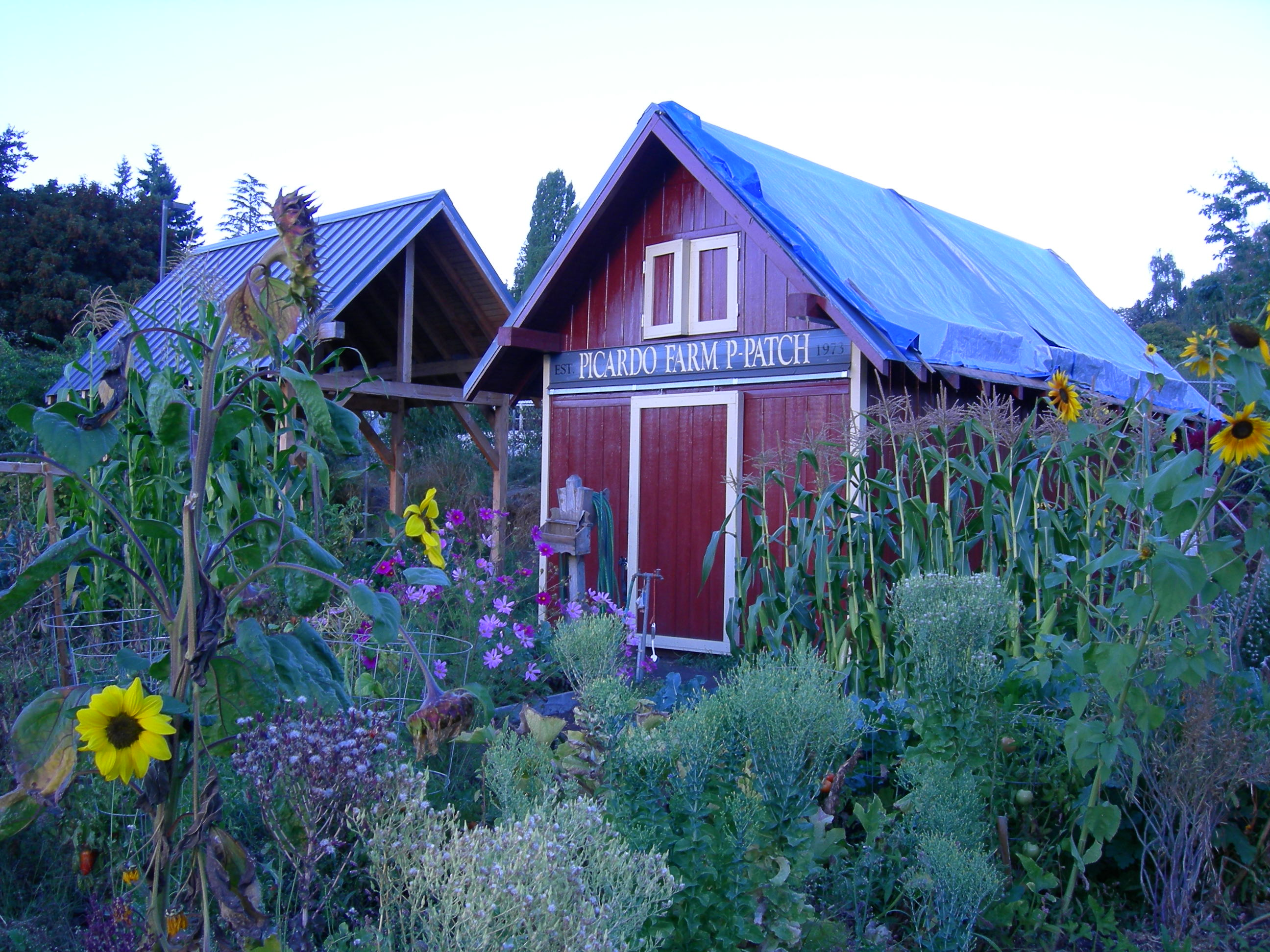 Picardo Farm, Wedgwood, Seattle, Washington. Seattle's first P-Patch community garden.